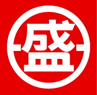 Jih Sun Financial Holding 1st logo